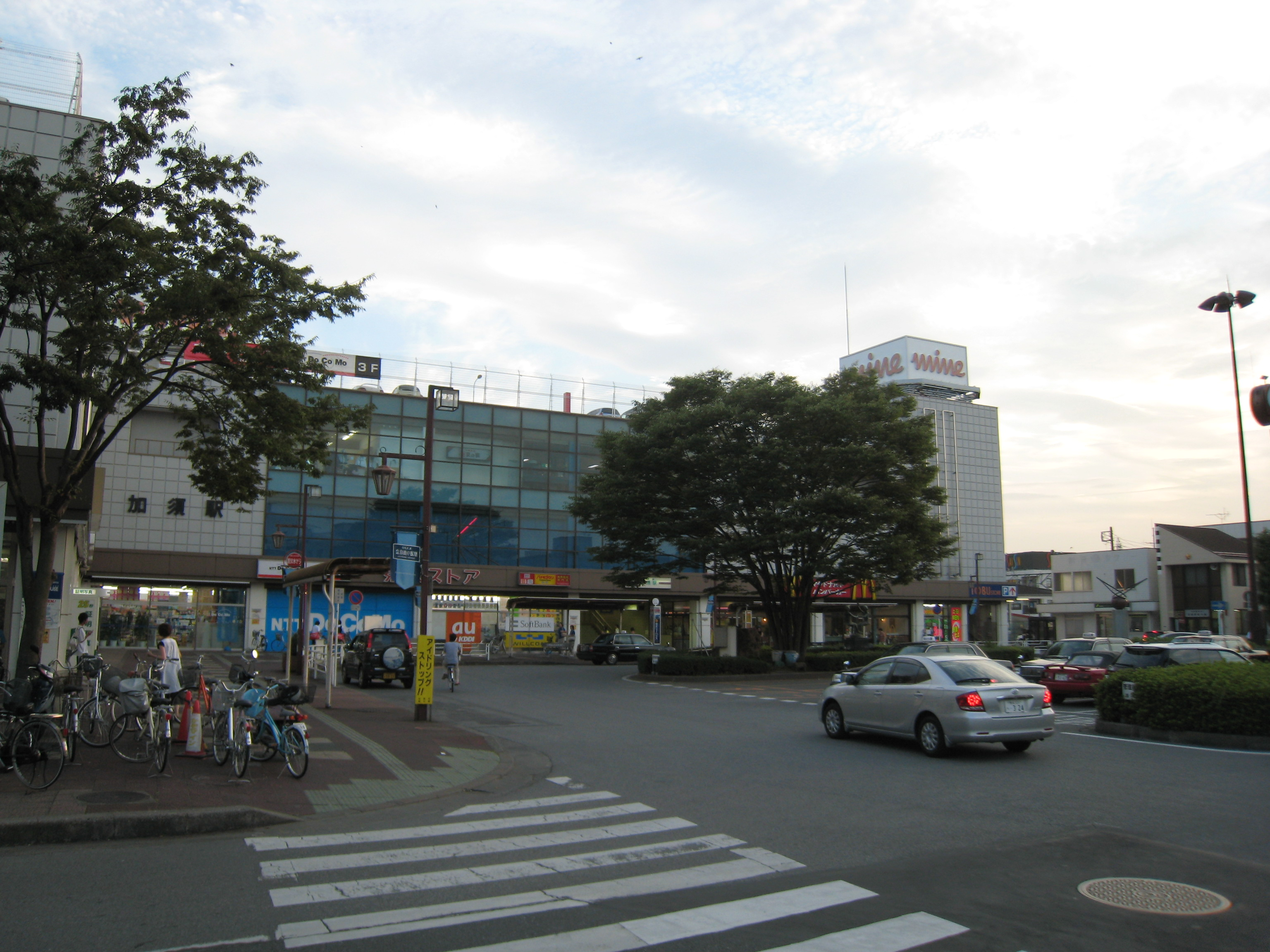 加須駅北口（東武伊勢崎線）。Kazo station North side, Tobu Isesaki Line, Saitama pref, Japan